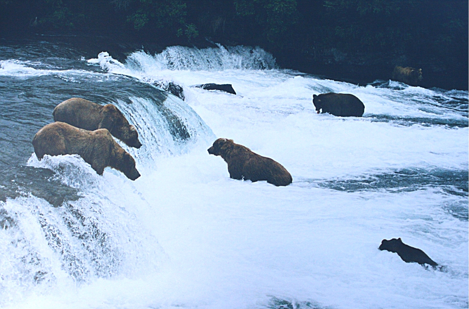 Brown bears at Brooks Falls Katmai National ParkPhotograped by Brocken Inaglory in July of 1998